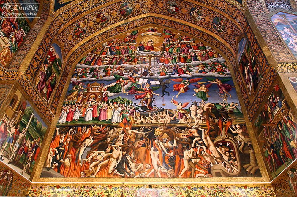 An Armenian fresco depicting Heaven, Earth, and Hell at the Vank Cathedral.